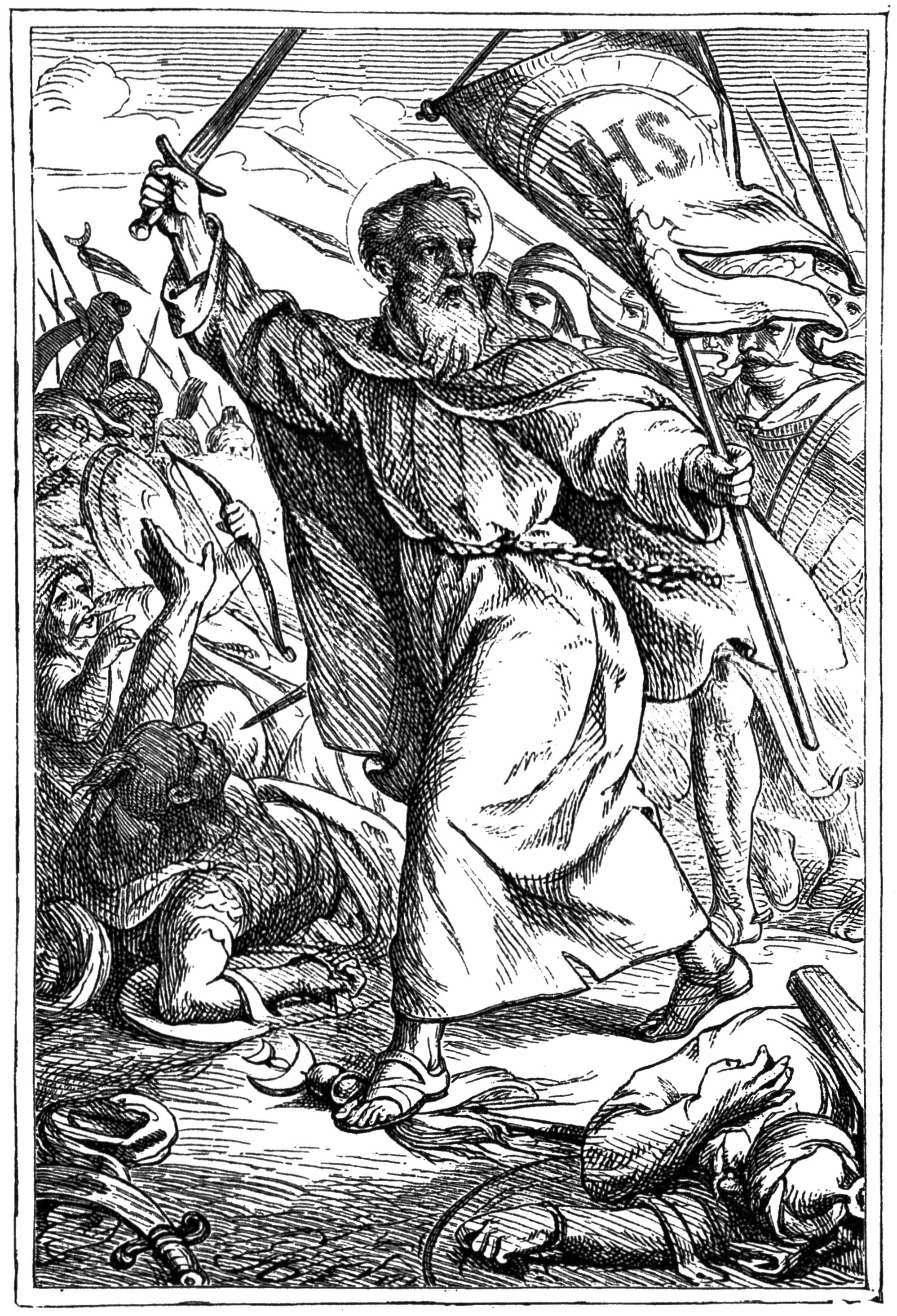 Christian victory by Belgrade in 1456